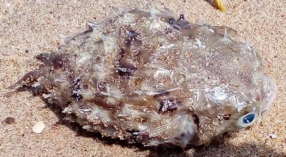 DEAD PORCUPINE FISH FOUND AT BEACH PILLAYARKUPPAM,PUDUCHERRY